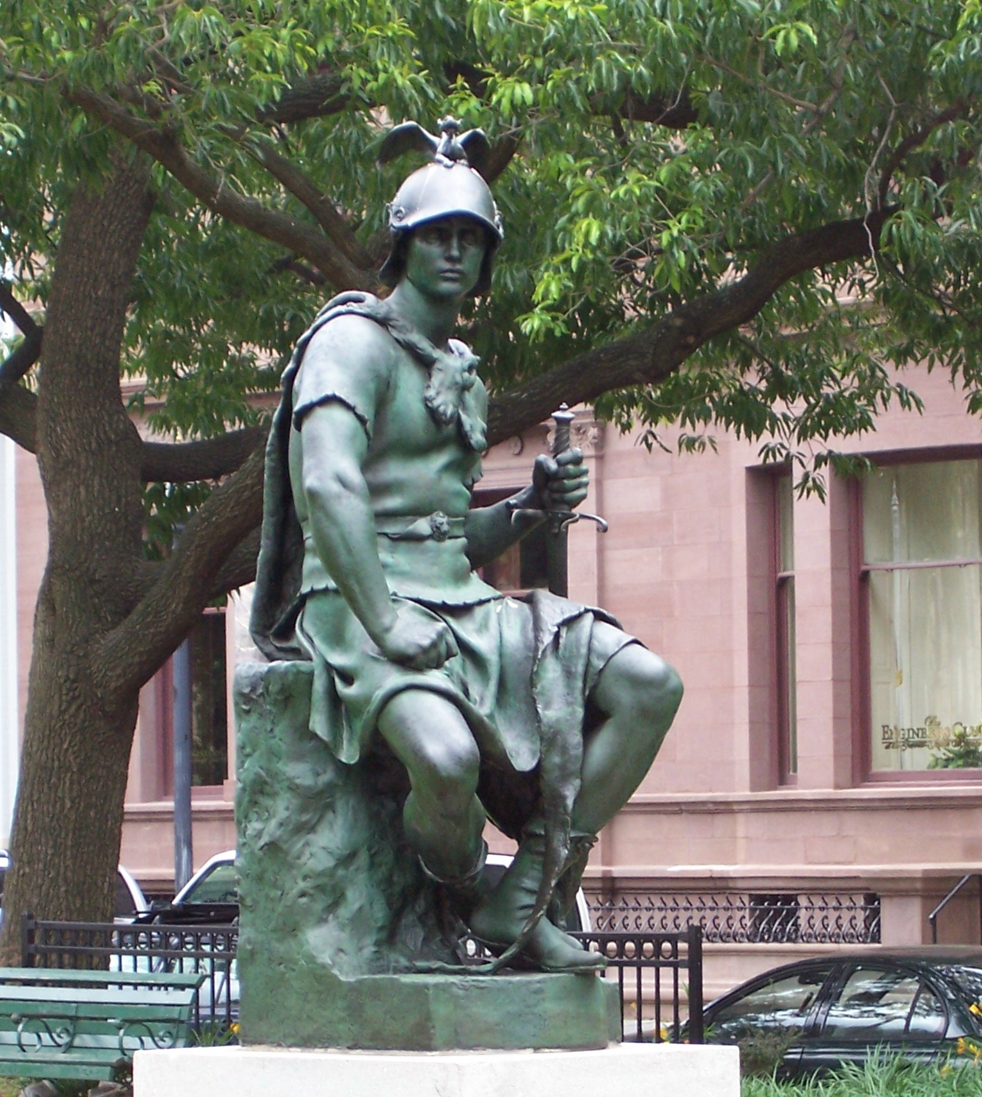 The Military Courage statue by Paul Dubois. Reproduction located in Mount Vernon, Baltimore.